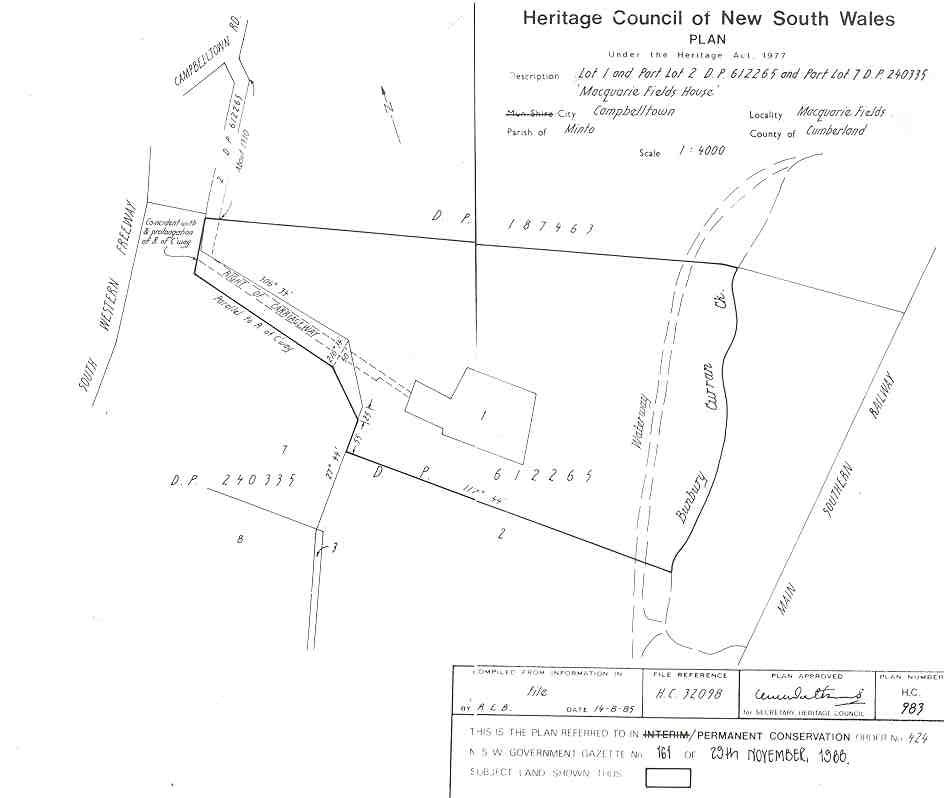 Macquarie Field House: PCO Plan Number 424